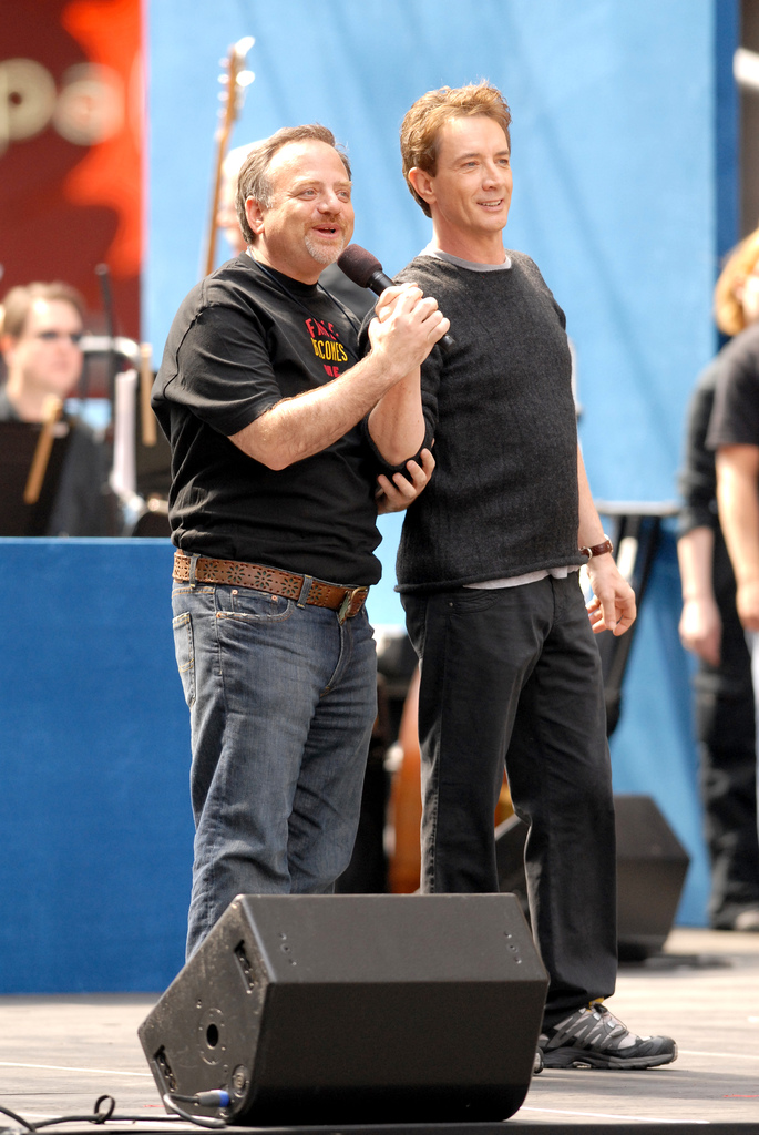 Martin Short hosts Broadway on Broadway, September 10th 2006.